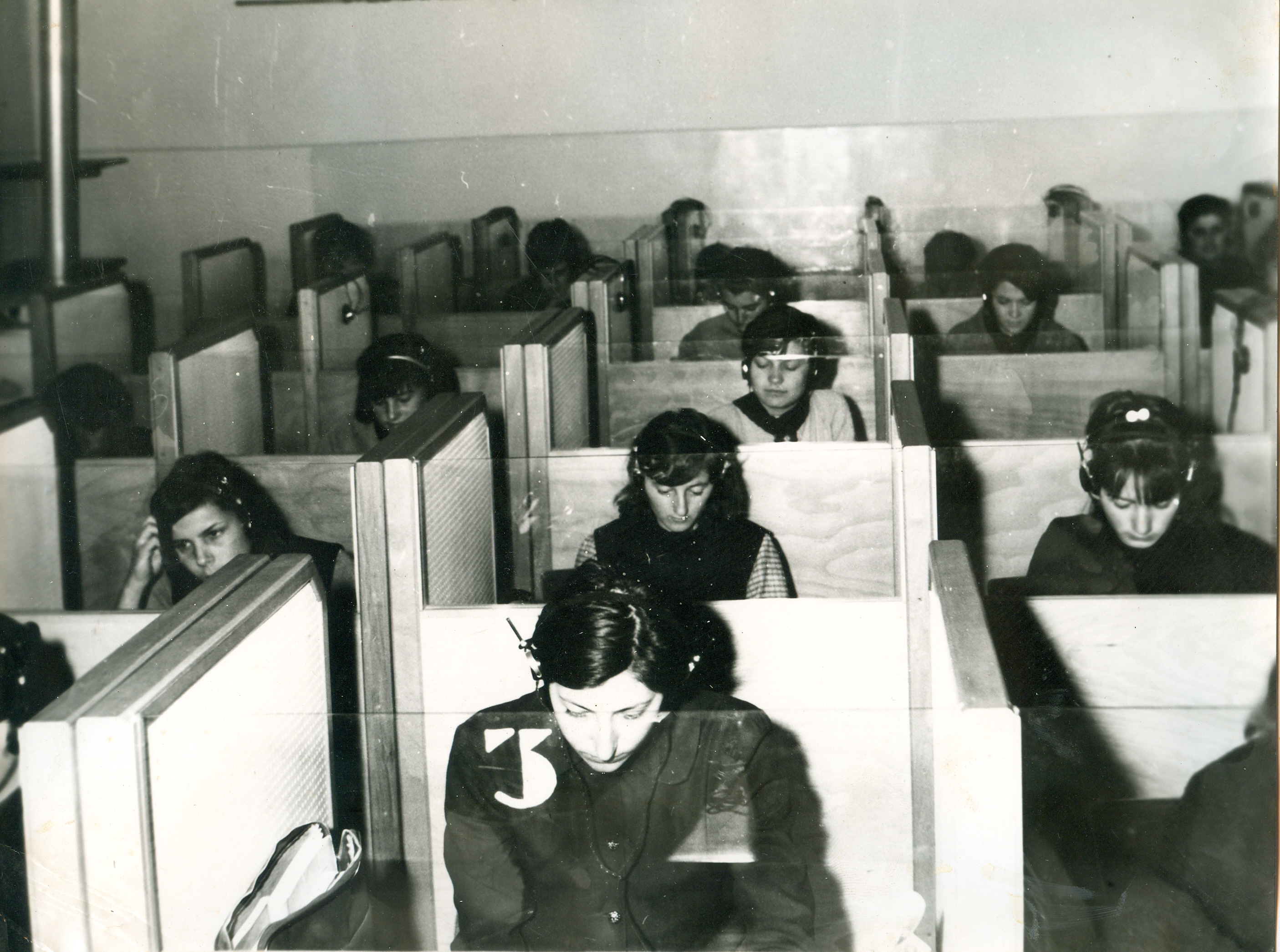 School for teacher in Negotin - Students in a foreign language learning lab Srpski (latinica): Studenti Učiteljske škole u Negotinu u laboratoriji za učenje stranih jezika